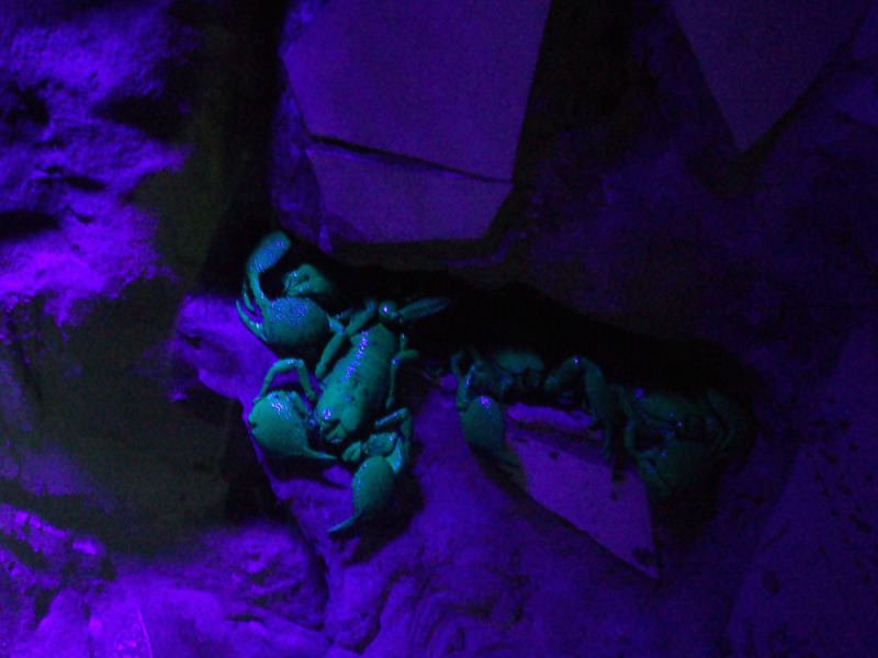 Emperor scorpions exposed to ultra-violet light at Point Defiance Zoo & Aquarium